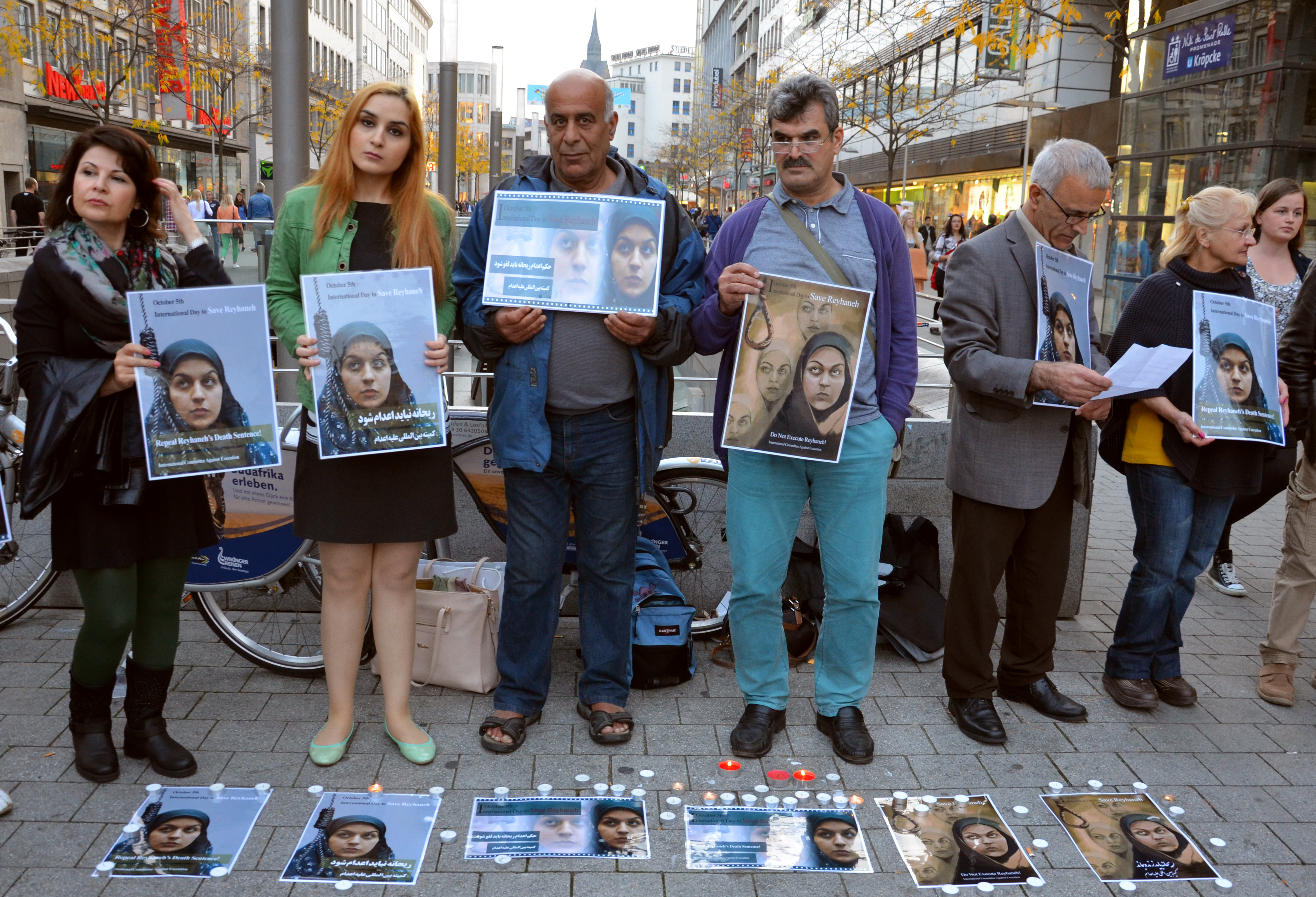 The International Committee Against Executions protested in different cities in the world especially on October 5h, 2014 against the possible executions from Reyhaneh Jabbari, here for example in Hannover ...